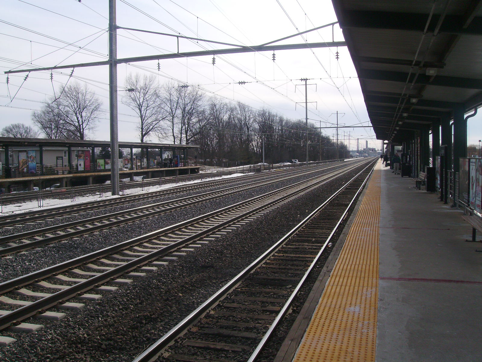 The Trenton-bound platform at the Linden station in Linden, New Jersey.